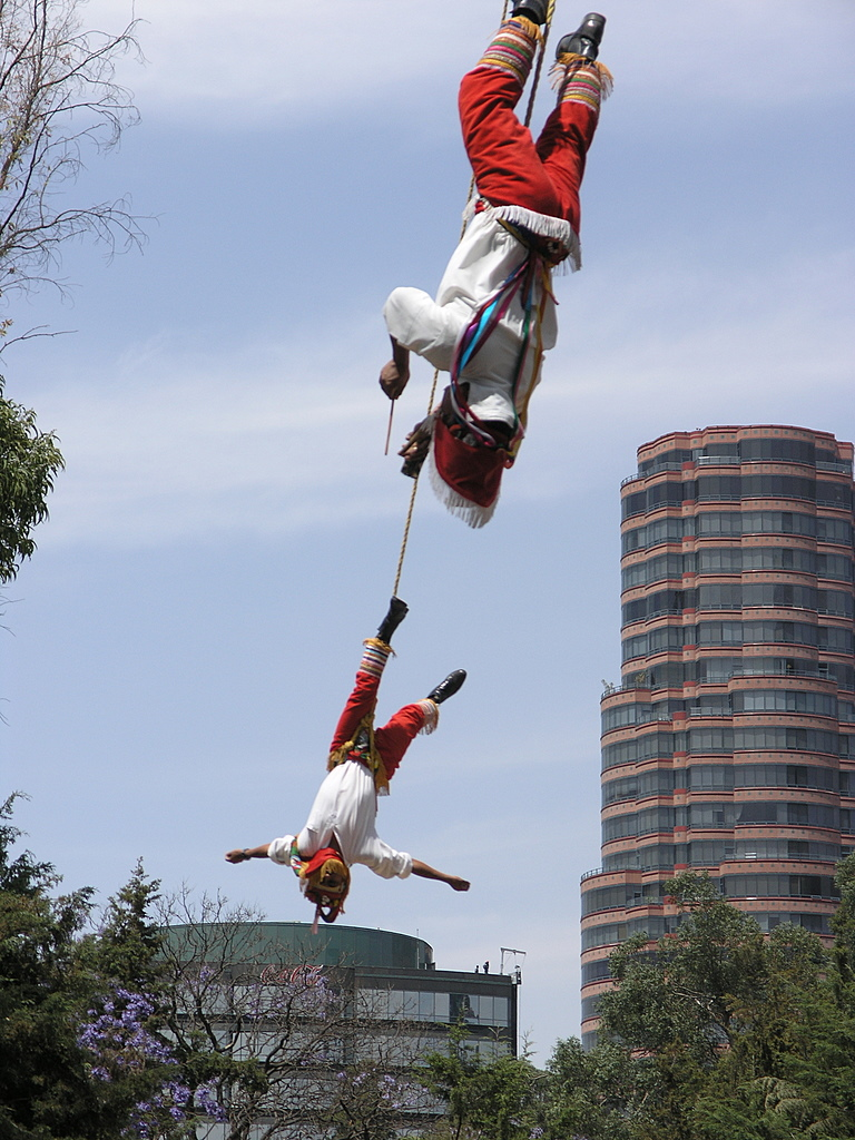 Performance of the Voladores in the central park of Chapultepec in Mexico City, next to the National Museum of Anthropology and History. The famous modern towers of Polanco can be seen in the background.